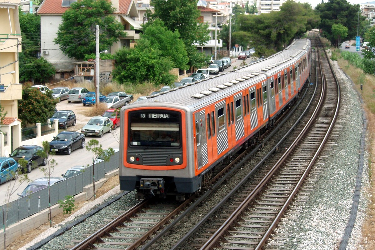 Athens-Piraeus Electric Railway (ISAP) EMU (series 11, ADtranz-Siemens-Hellenic Shipyards) enters Nerantziotissa station, Athens, Greece.